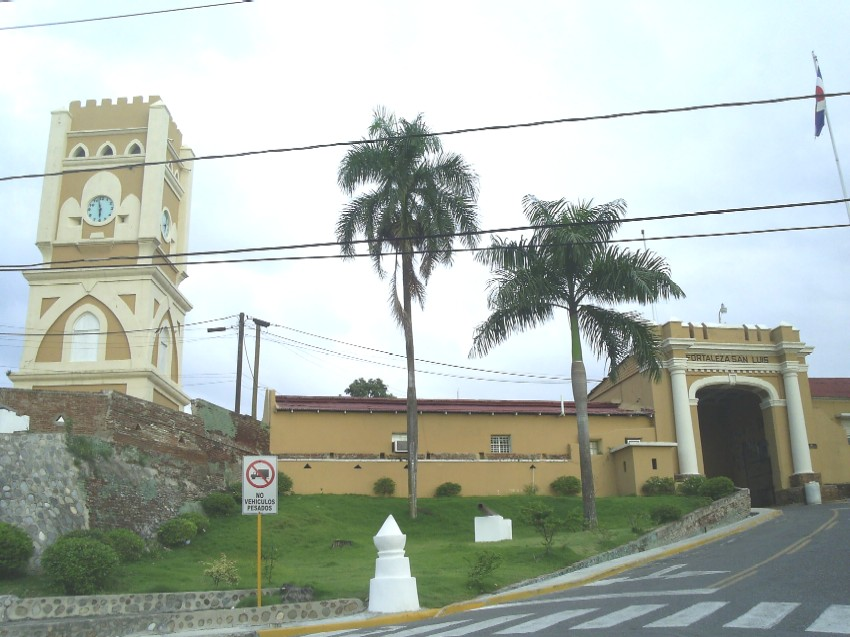 Entrance to Fortaleza San Luis, in Santiago de los Caballeros, Dominican Republic.